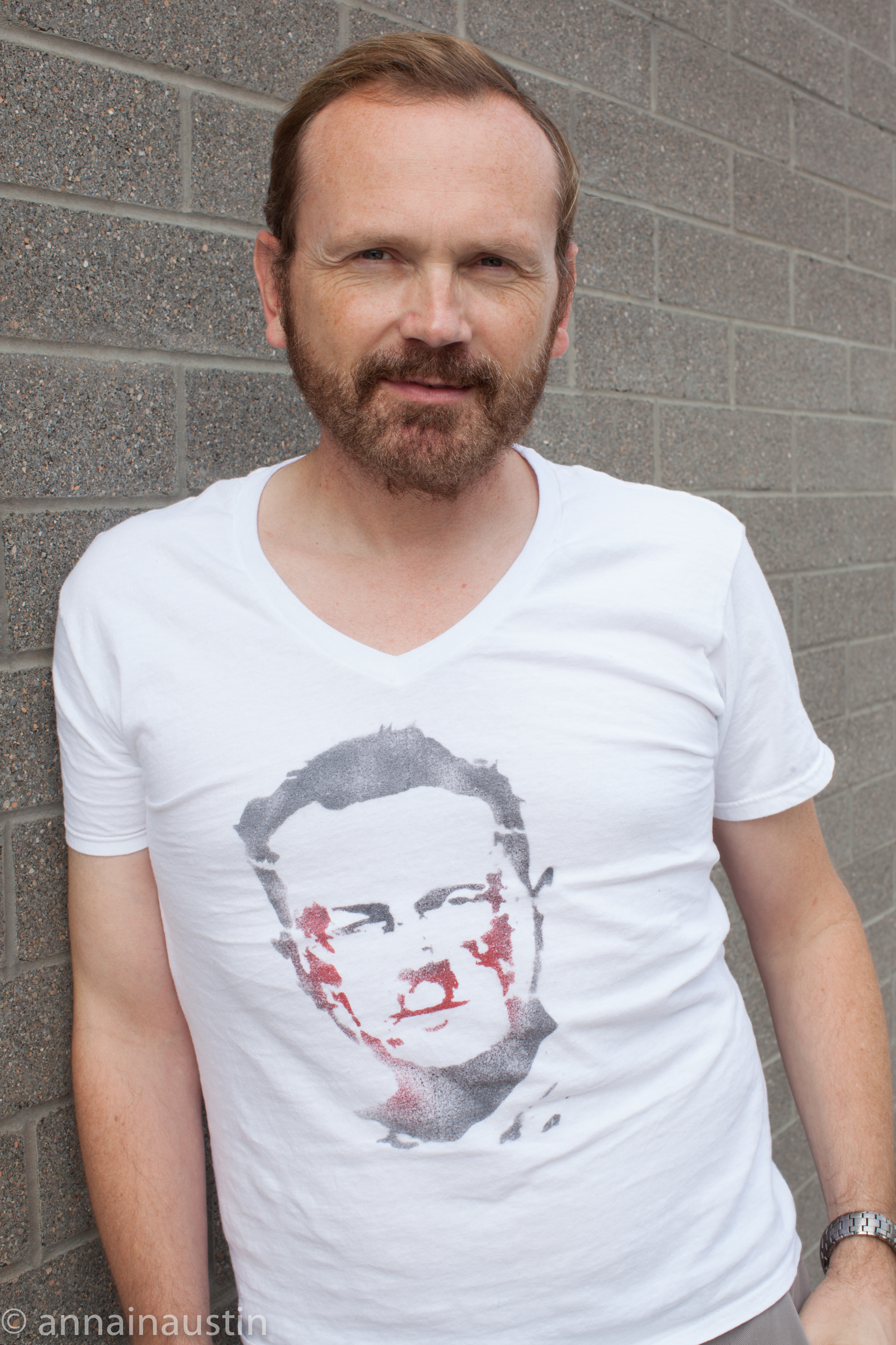 Pat Healy Fantastic Fest 2014 --29.jpg